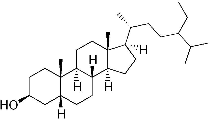 chemical structure of 24-ethylcoprostanol